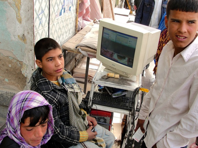 Street hackers and mp3 pirates, downloading 1 song for about 20 cents or movies, software, anything... (Afghanistan)